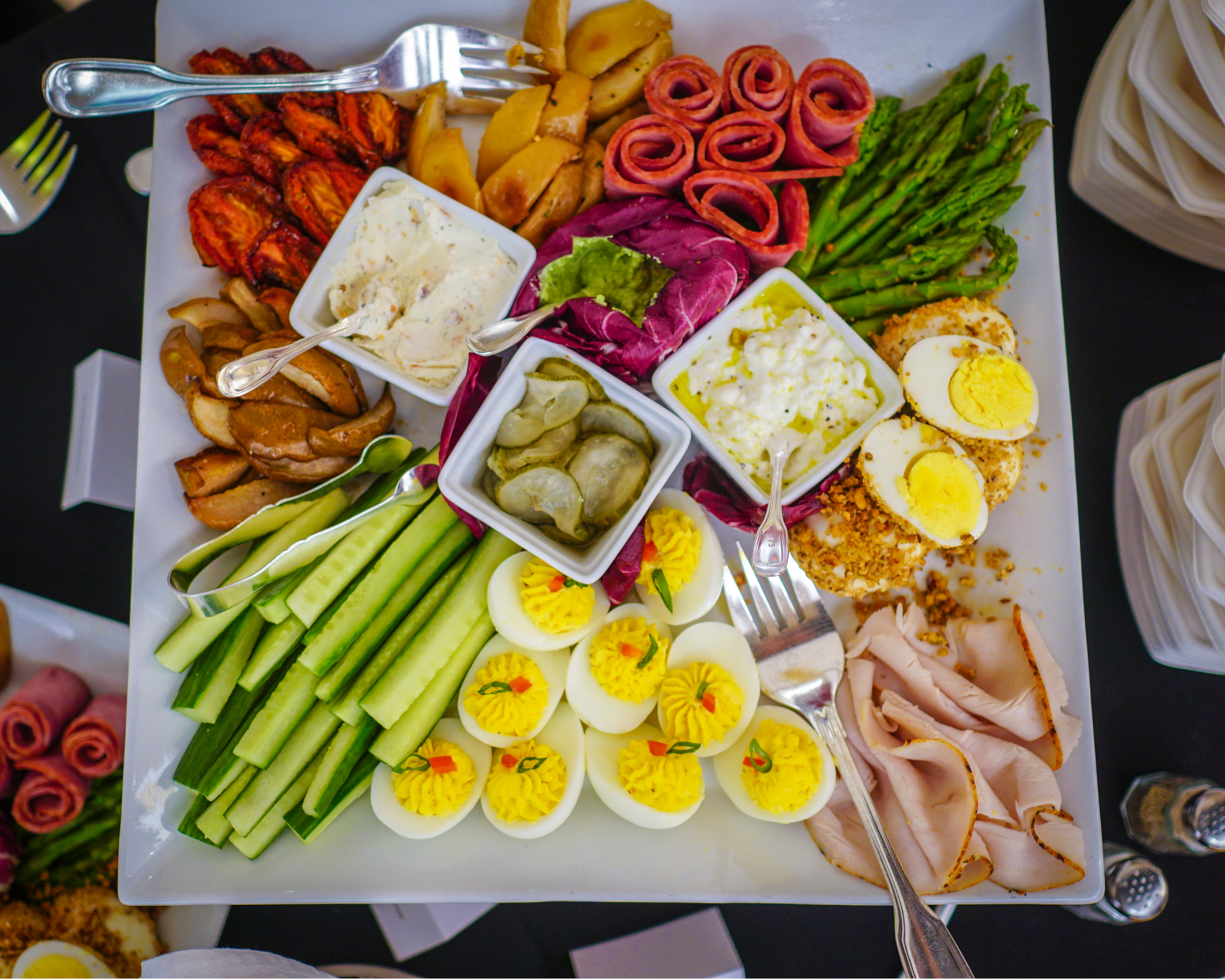 2019.04.25 Real Food at a Medical Meeting, Washington, DC USA 01623